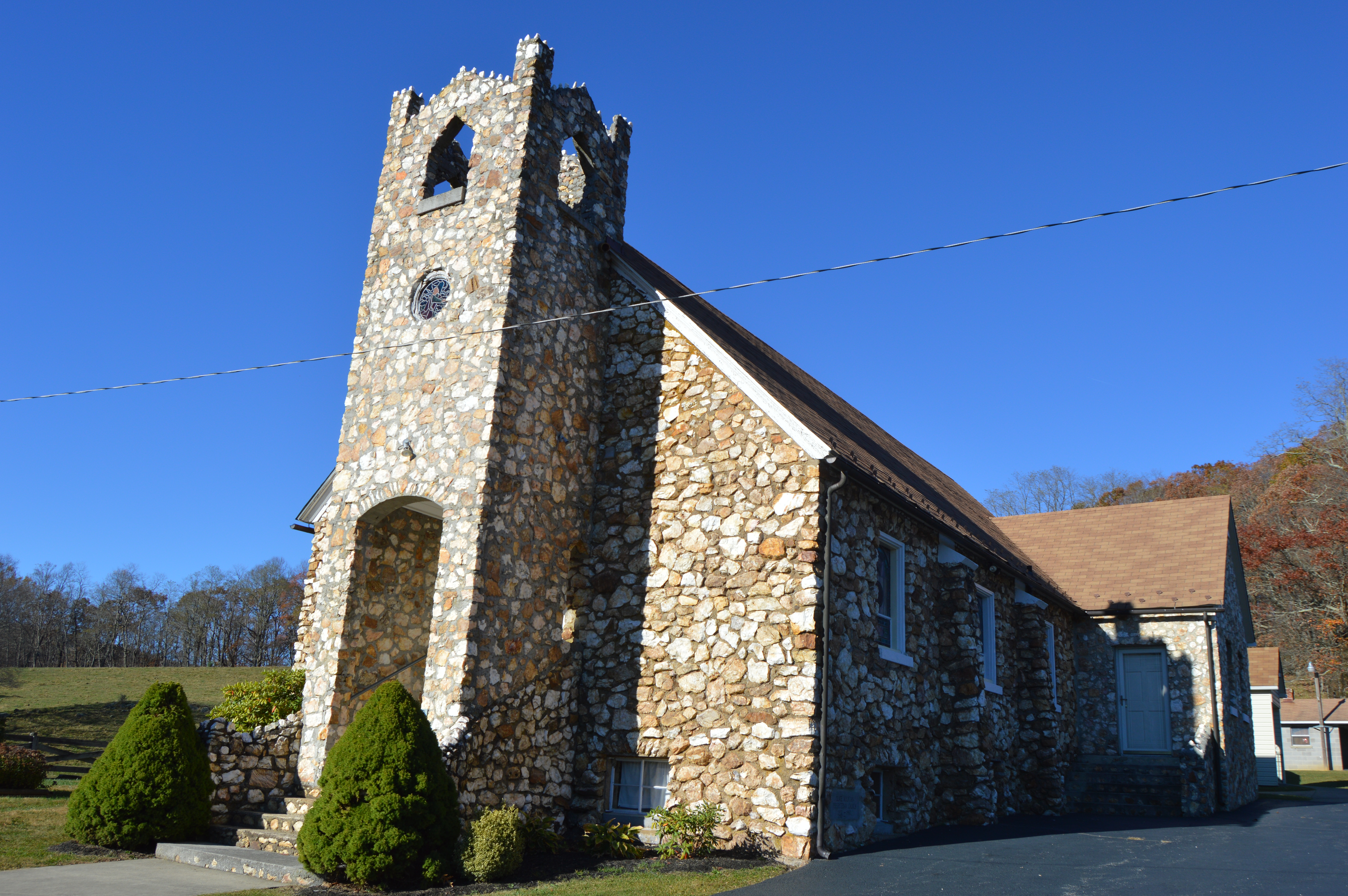 Front and eastern side of Slate Mountain Presbyterian Church, located on Rock Church Road near the summit of the Blue Ridge (at Rock Castle Gap) in far eastern Floyd County, Virginia, United States. Built in 1932, it is listed on the National Register of Historic Places.